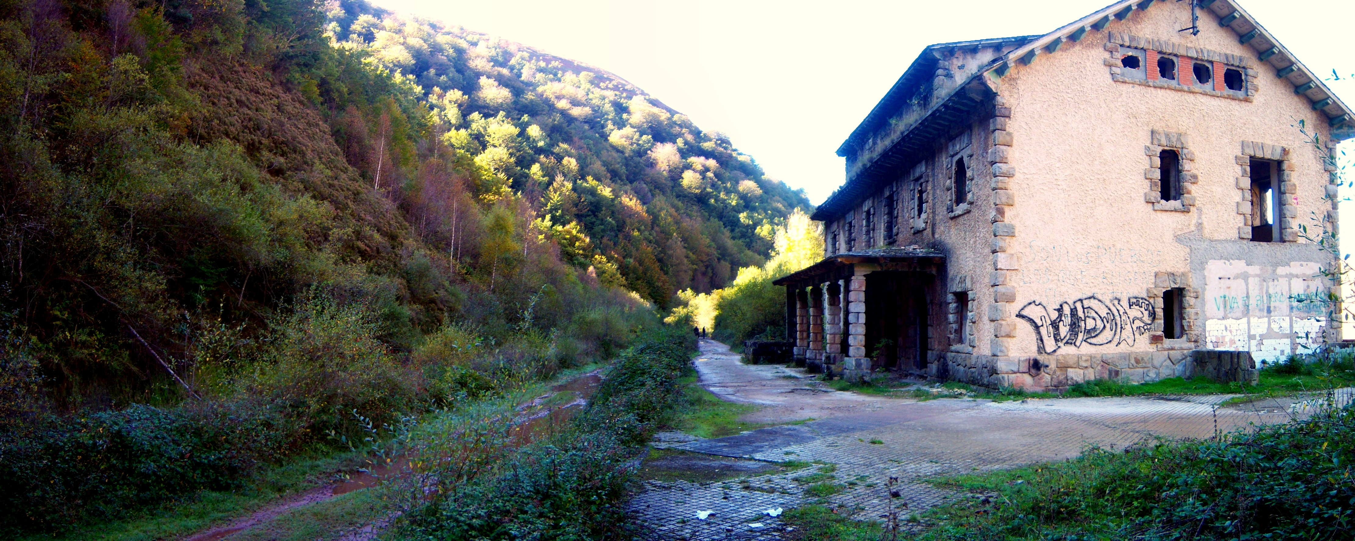 The ghostly abandoned railway station of Yera (Cantabria, Spain) in the never-completed line Santander Mediterranean. It is also one of the mouths of the tunnel of La Engaña.